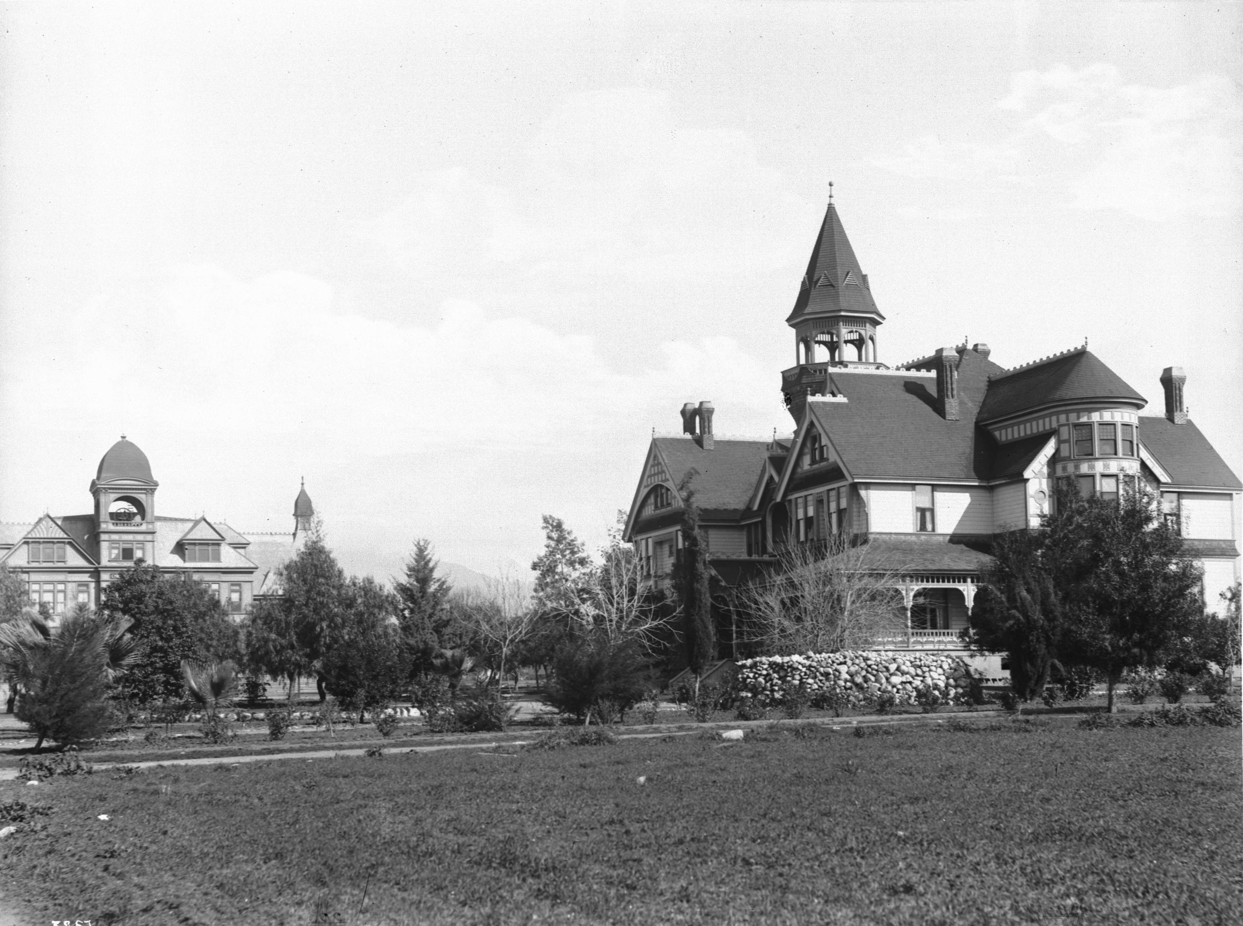 Exterior view of Pomona College, Claremont, 1907 Photograph of an exterior view of Pomona College, Claremont, 1907. The large mansion at right was formerly the Claremont Hotel. Another building is visible at left behind some trees. The three-story Victorian mansion has an open-air tower with an octagonal-shaped conical roof. Trees and shrubs dot the surrounding lawns. A bell hangs in the tower of the three-story building at left. Filename: CHS-3857 Coverage date: 1907 Part of collection: California Historical Society Collection, 1860-1960 Format: glass plate negatives Type: images Geographic subject (city or populated place): Claremont Repository name: USC Libraries Special Collections Accession number: 3857 Microfiche number: 1-18-22; 1-40- Archival file: chs_Volume149/CHS-3857.tiff Rights: Digitally reproduced by the USC Digital Library; From the California Historical Society Collection at the University of Southern California Part of subcollection: Title Insurance and Trust, and C.C. Pierce Photography Collection, 1860-1960 Repository address: Doheny Memorial Library, Los Angeles, CA 90089-0189 Geographic subject (country): USA Subject (naf): Pomona College (Claremont, Calif.) Publisher (of the digital version): University of Southern California. Libraries Subject (adlf): educational facilities Project: USC Repository Contributing entity: California Historical Society Date created: 1907 Call number: CHS-3857 Format (aat): photographic prints; photographs Geographic subject (state): California Subject (file heading): Los Angeles County -- Claremont -- General Legacy record ID: chs-m5630; USC-1-1-1-5747 Access conditions: Send requests to address or e-mail given. Phone (213) 821-2366; fax (213) 740-2343. Geographic subject (county): Los Angeles Format (aacr2): 2 photographs : glass photonegative, photoprint, b&w ; 17 x 22 cm., 13 x 18 cm. Subject (lcsh): Views; Universities and colleges